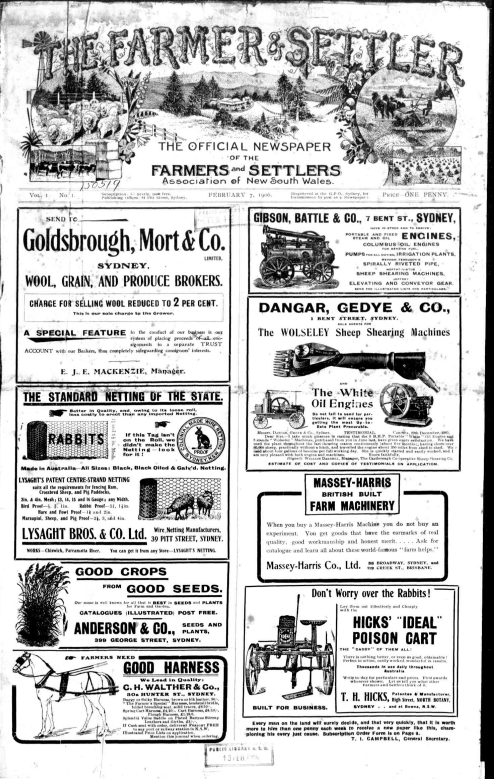 The front page of The Farmer & Settler on 7 February 1906